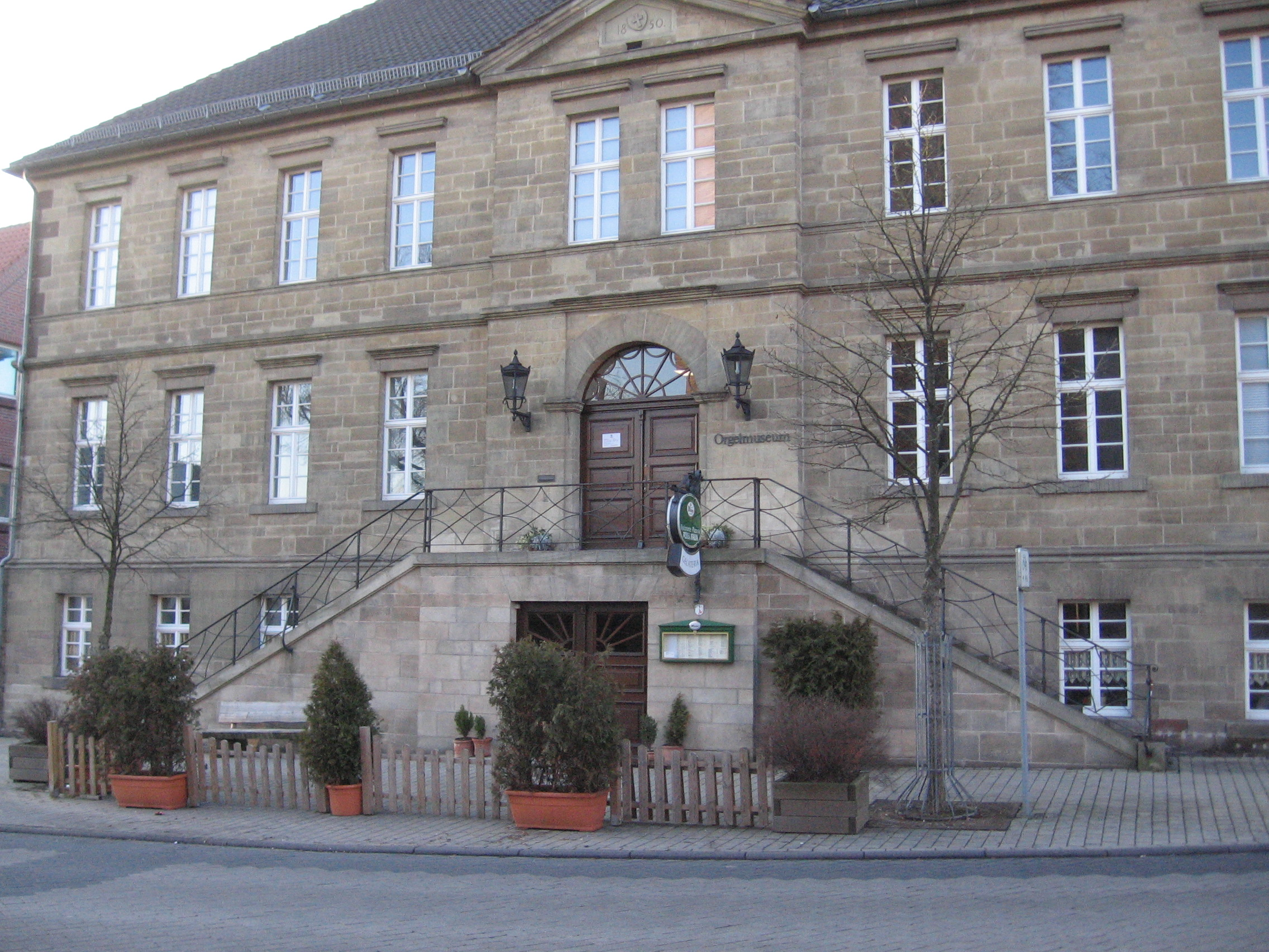 The museum for organs in the German city Borgentreich.